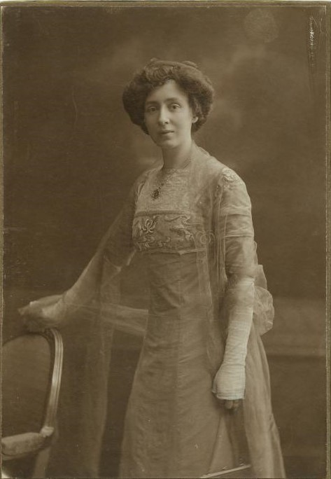 Ellen Hagen, Upsala, Sweden